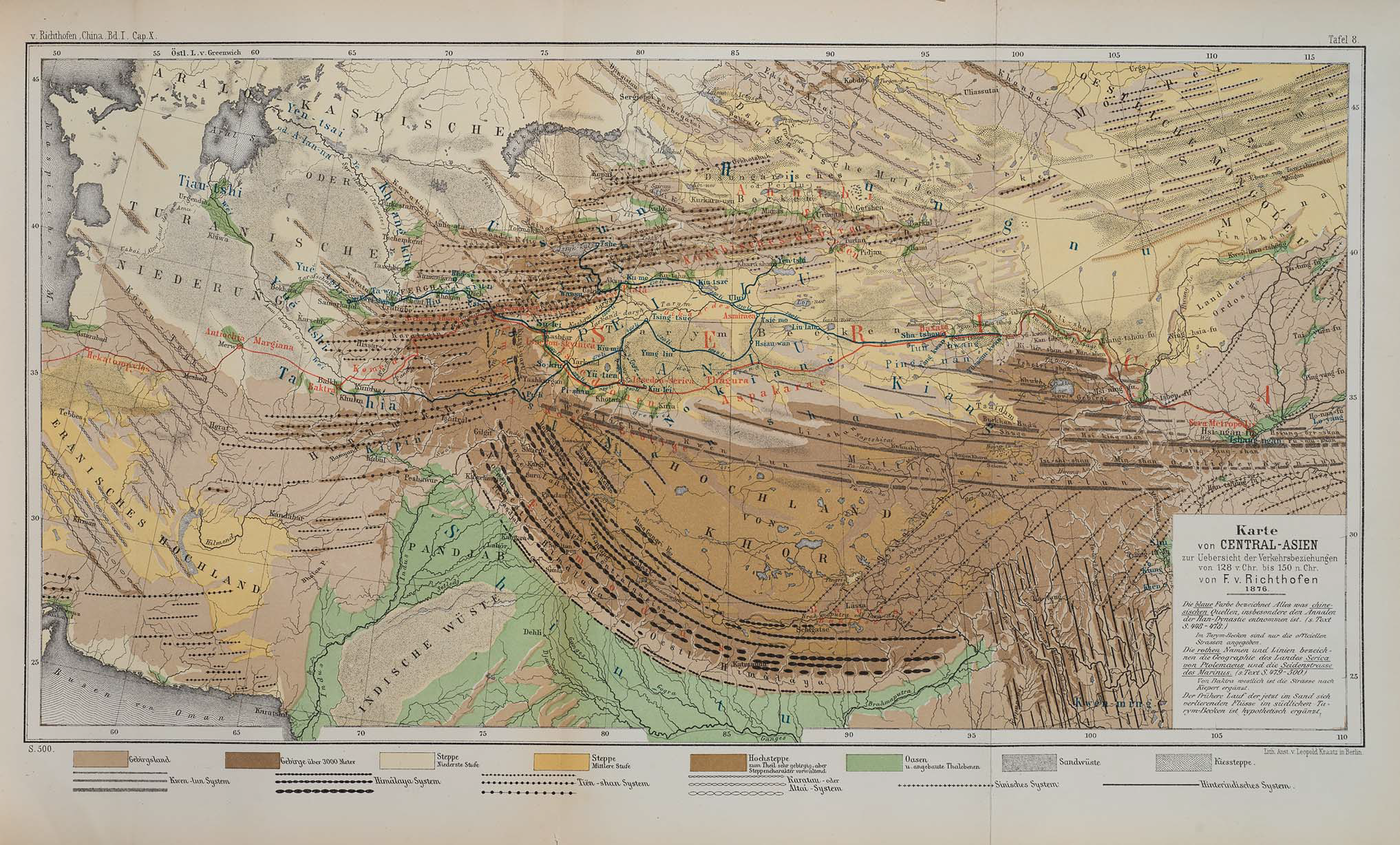 Map of Central Asia for overview of trade routes and movements from 128 BC to 150 AD